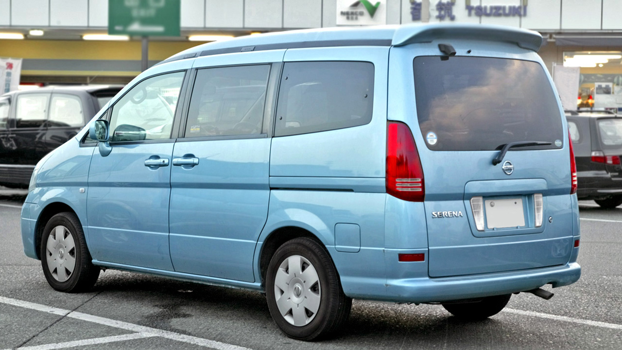 Nissan Serena C24 High-roof (2000-6 ~ 2001-11)